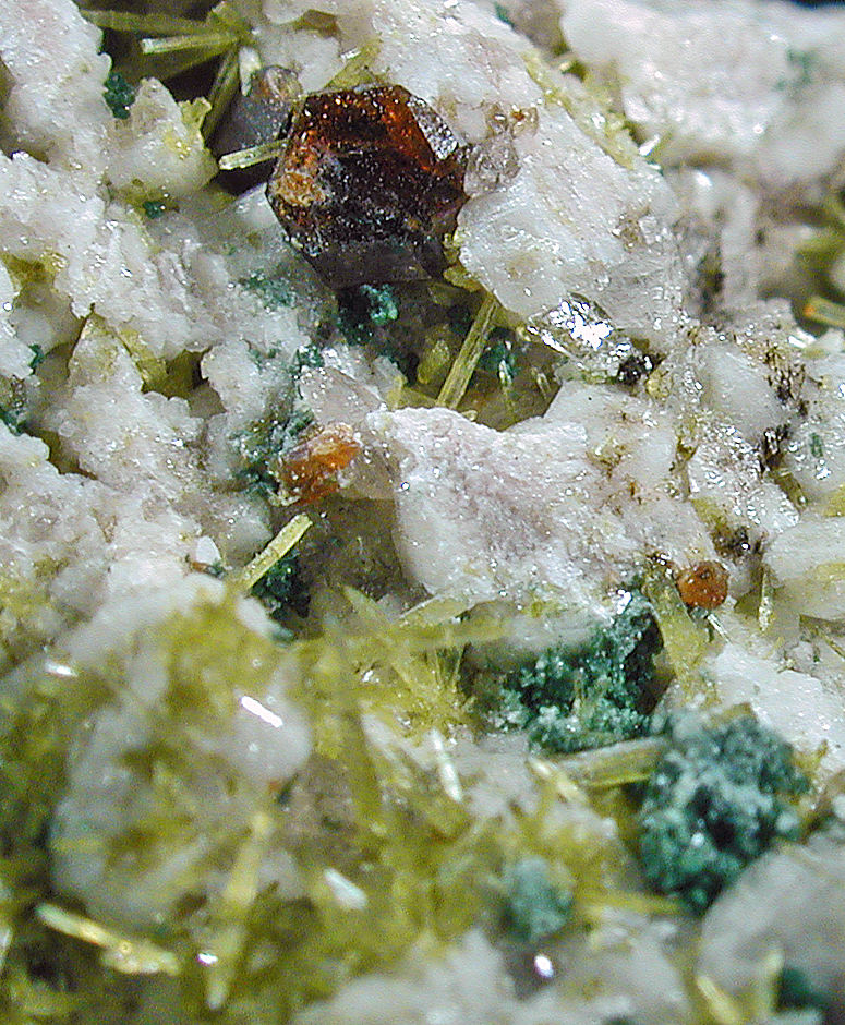 Euxenite-(Y), Microcline, Epidote, Chlorite Locality: Cactus Jack pegmatite, Burnet County, Texas, USA Original description: One-millimeter brown euxenite-(Y) crystal on microcline, with light-green epidote and dark green chlorite. Field of view about 5 mm. Collected by M. Jatzkowski, 1/2000, via Dave Shannon. The specimen is labelled "Milford Quarry" but is believed to be from the small quarry at the Highway 21 locality near Milford. K. Nash specimen & image.